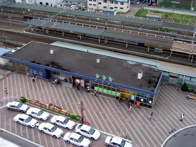 JR Hokkaido Shiroishi Station